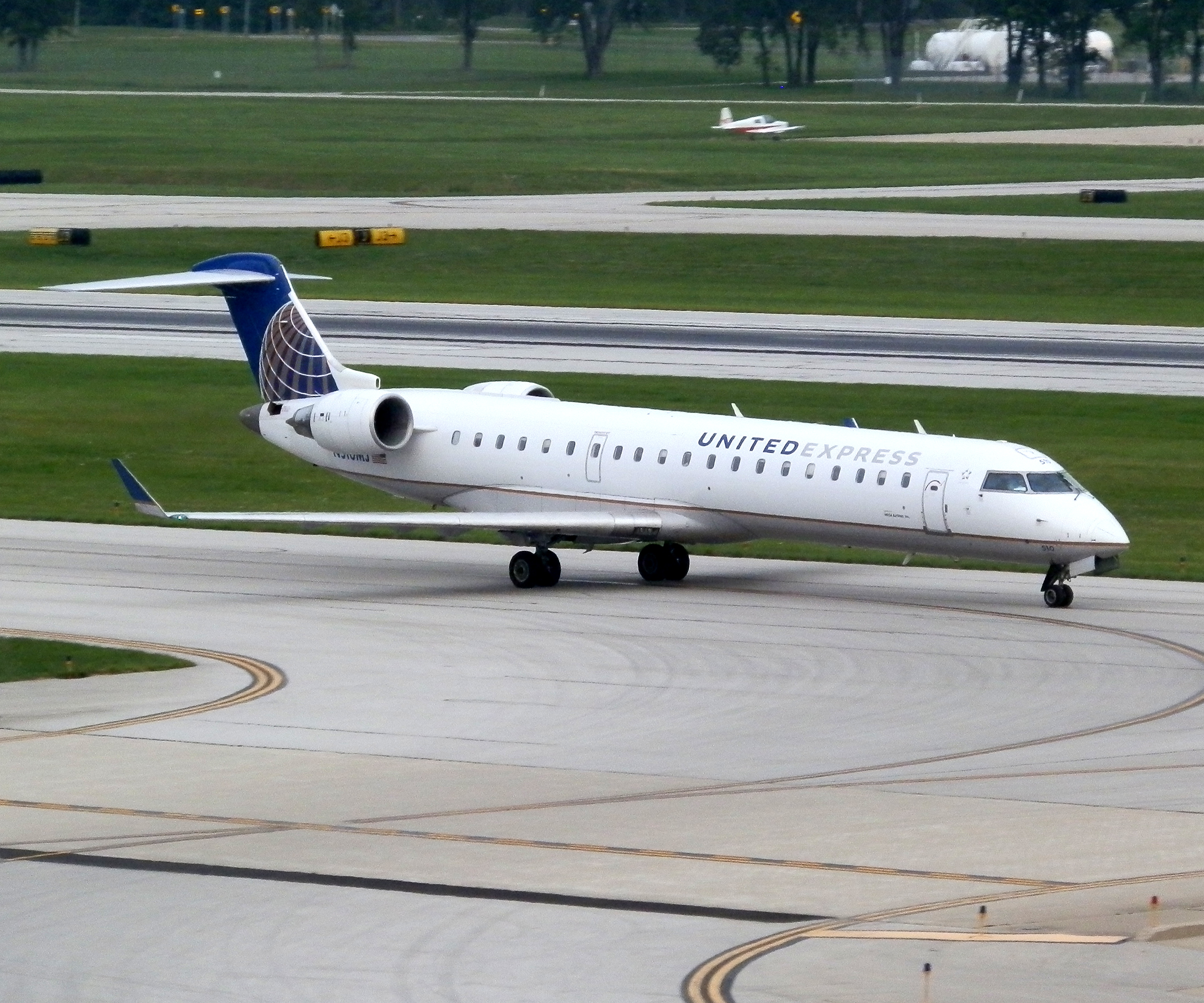 Mesa Airlines (United Express) CRJ700 at Port Columbus